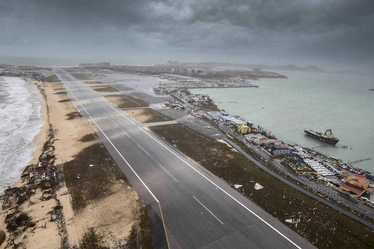 Hurricane Irma on Sint Maarten (Caribbean Netherlands) - air photo